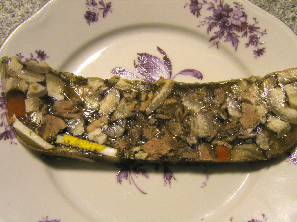 Jellied meat (pork in aspic, head cheese)